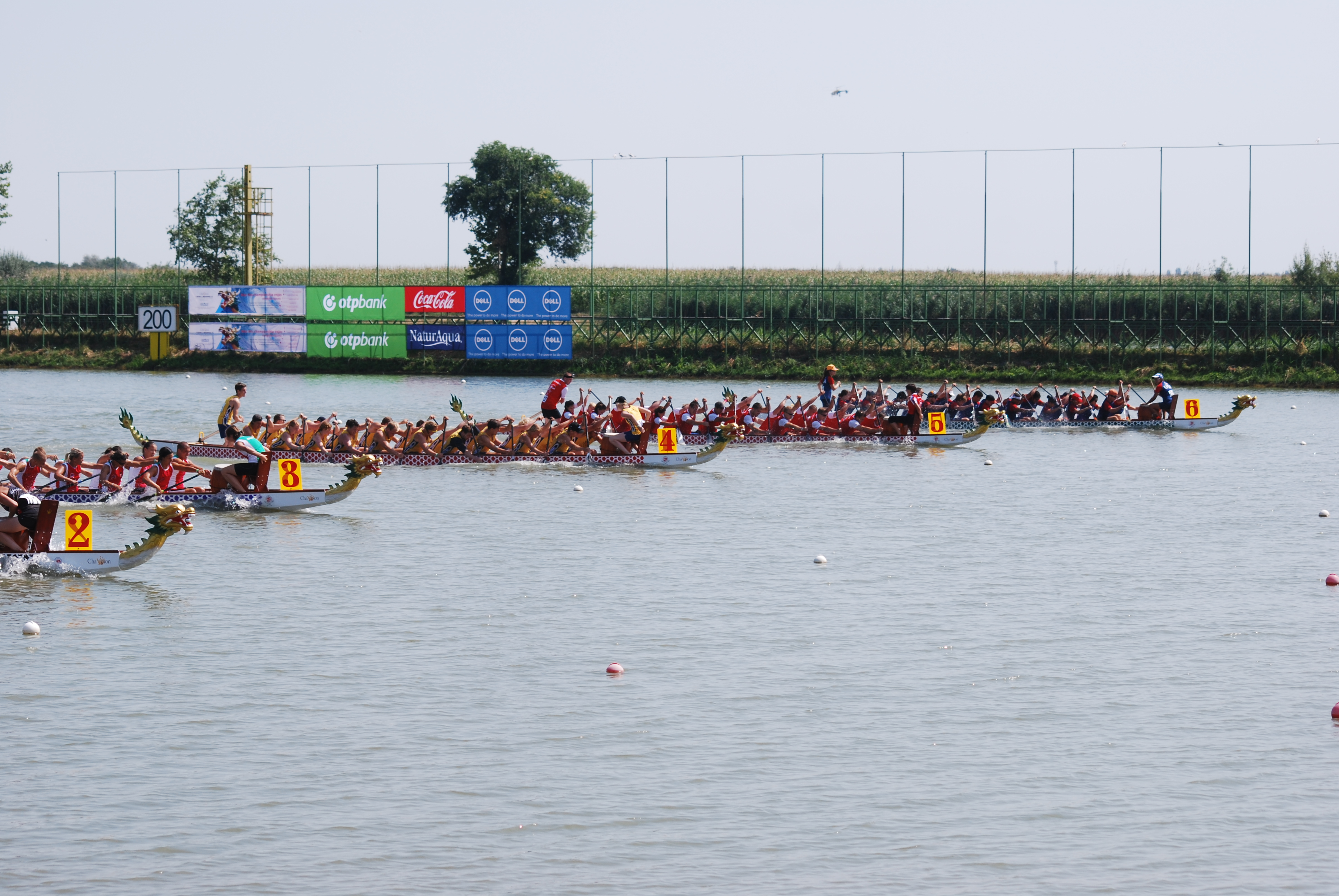 (IDBF World Dragon Boat Racing Championships 2013 in Szeged, Hungary. Standard boat U24 mixed racing.)